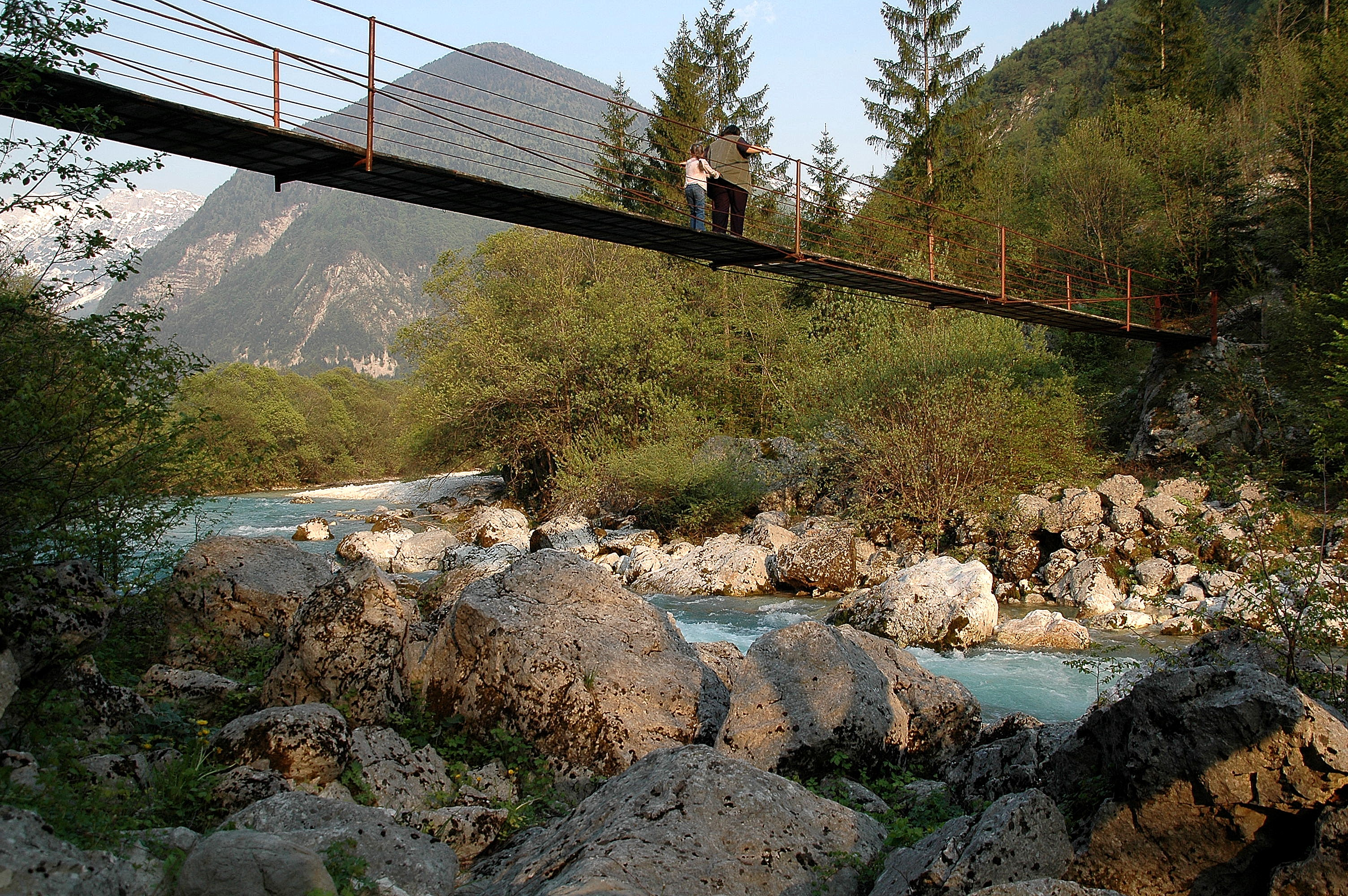 Soca flowing through the Spodnja Trenta in the Triglav national park, Slovenia